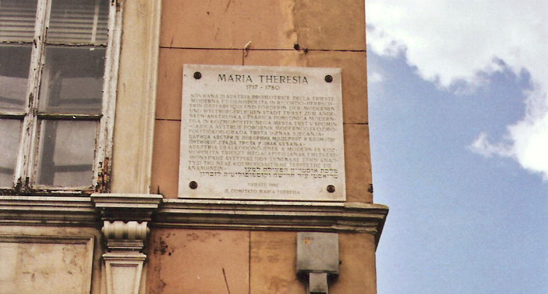 Multilingual sign in Trieste commemorating empress Maria Theresa, in languages of various communities of the city: Italian, Greek, Hebrew, German, Slovenian and Croatian